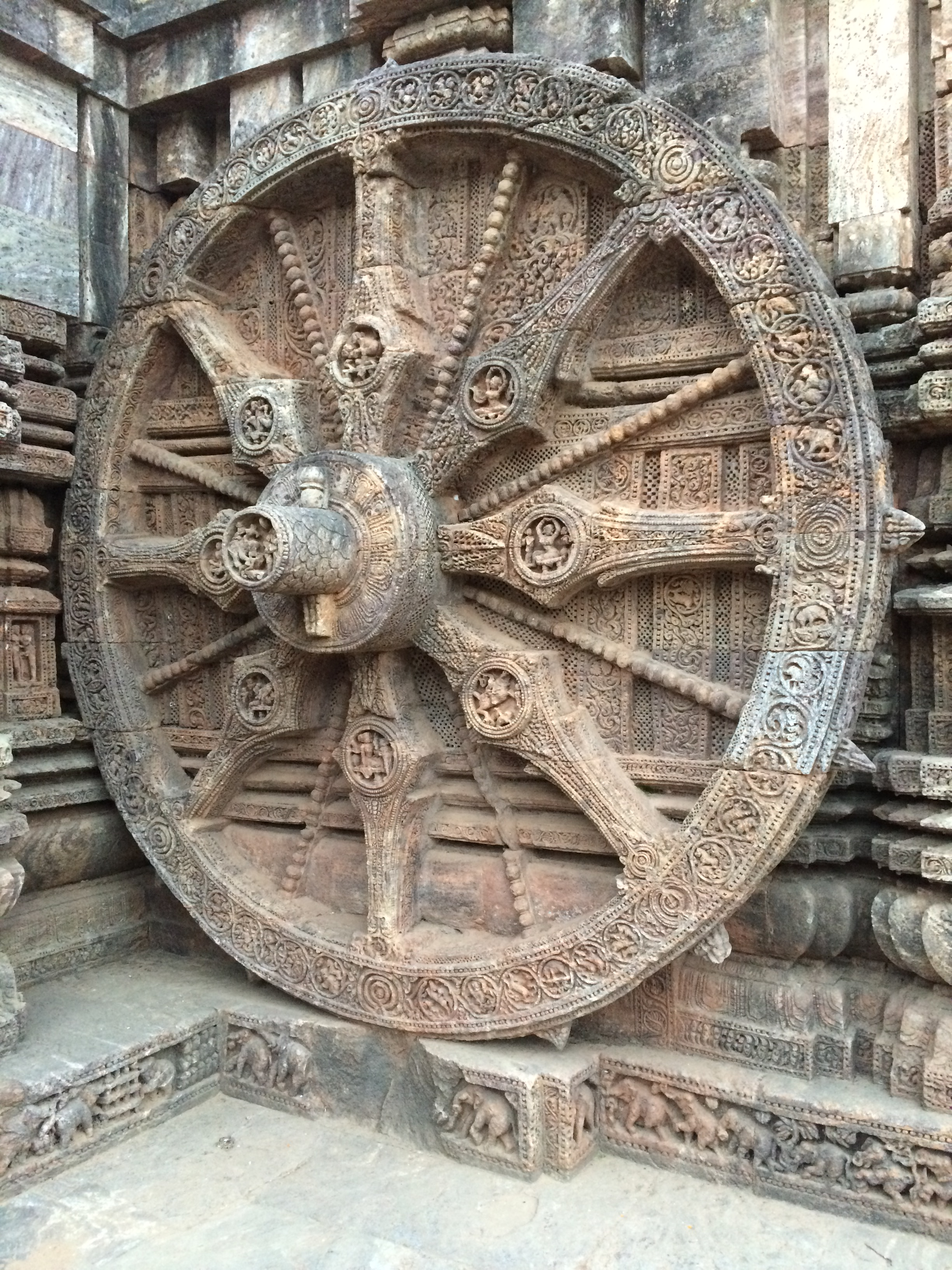 Konark Sun Temple : Exquisite stone carved wheel